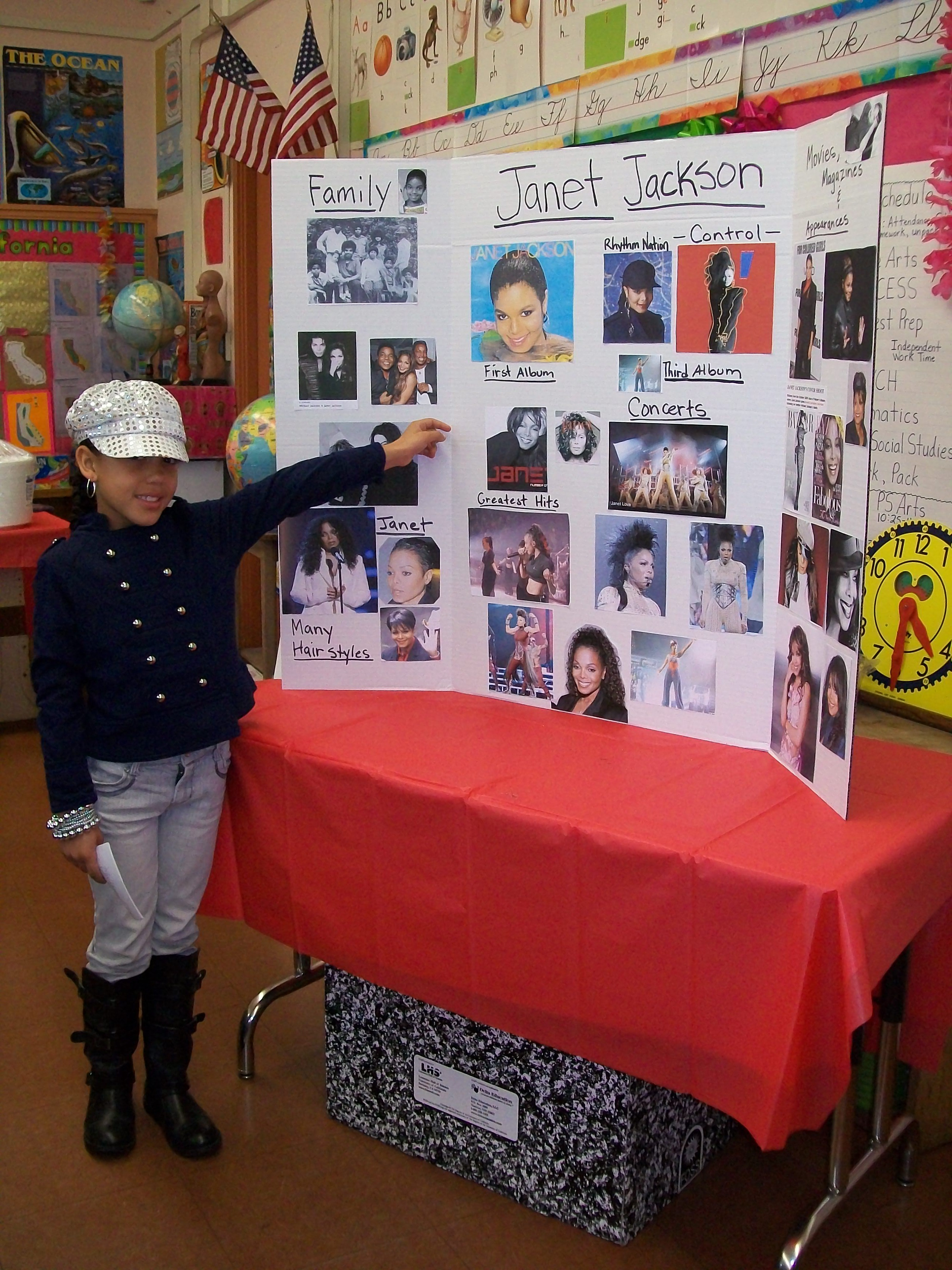 Janet Jackson music history project in 2011.